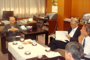 Helga Nowotny, President of European Research Council, met Masuo Aizawa and Tasuku Honjo, Members of the Council for Science and Technology Policy, Cabinet Office, on August 26, 2010.